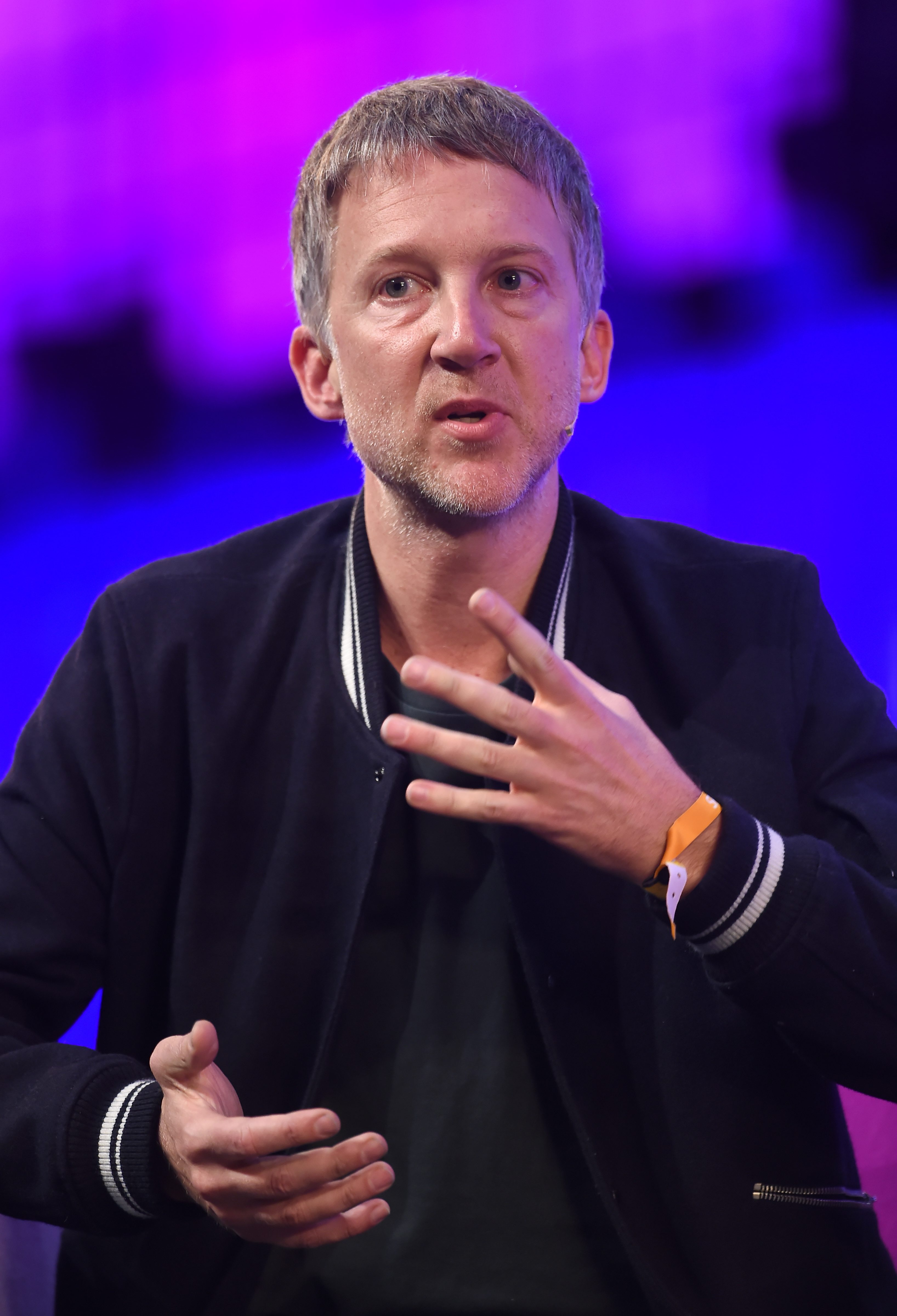 In five years, Web Summit has grown from 400 attendees to over 42,000 from more than 134 countries. It’s been called “the best technology conference on the planet”. But we just think it’s different. And that difference works for our attendees, ranging from Fortune 500 companies to the world’s most exciting startups.